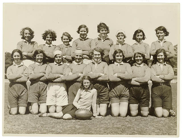 Women's rugby team, New South Wales, Australia, possibly Sydney, 1930s.